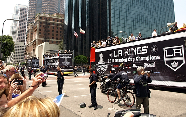 The Los Angeles Kings' 2012 Stanley Cup victory parade in downtown Los Angeles. View from the corner of South Figueroa Street and West 5th Street, looking west. This photograph was taken with an Olympus E-510 DSLR camera and edited (brightness and contrast) using ArcSoft Photostudio 5.5